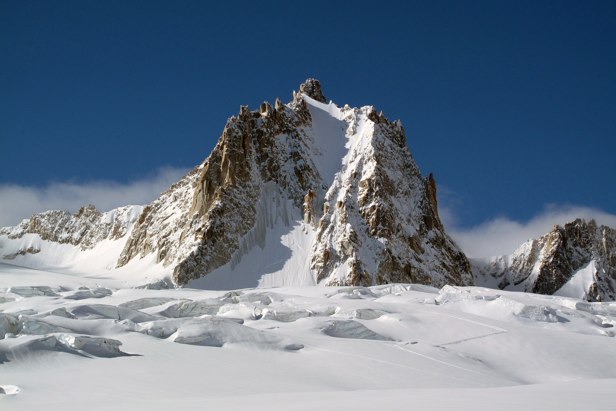 Tour Ronde, north face, Massiv of Mont Blanc.